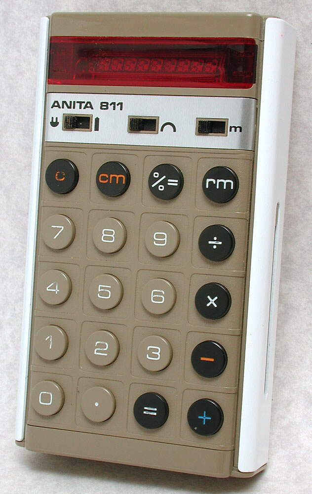 Anita 811 calculator. Photograph taken by myself of a calculator in my collection.